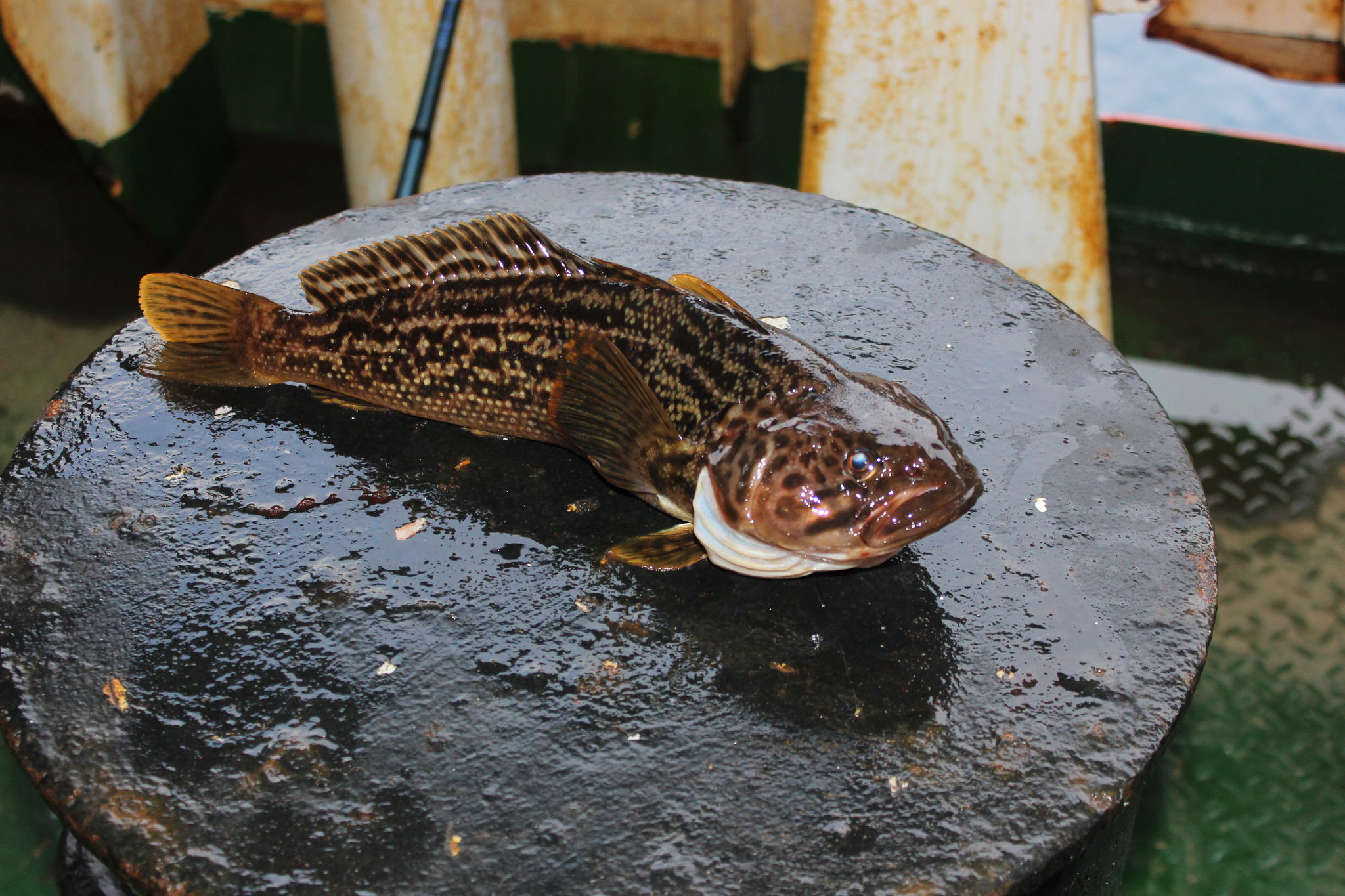 Gobionotothen gibberifrons catched in Antarctic